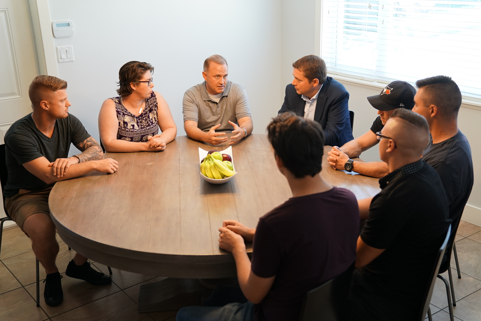 I'm at the Cedars Society in Surrey, British Columbia along with @diannewattsmp and Marshall Smith. Cedars Society is a non-profit organization promoting recovery and improving the lives of individuals and families by providing understanding and knowledge on addictions. The opioid abuse crisis is affecting Canadians in every part of the country, at every level of society. It was powerful to visit with young people recovering from drug addiction in Surrey. We believe in you, and We must work around kitchen and boardroom tables and in our communities to help Canadians addicted to drugs find recovery.